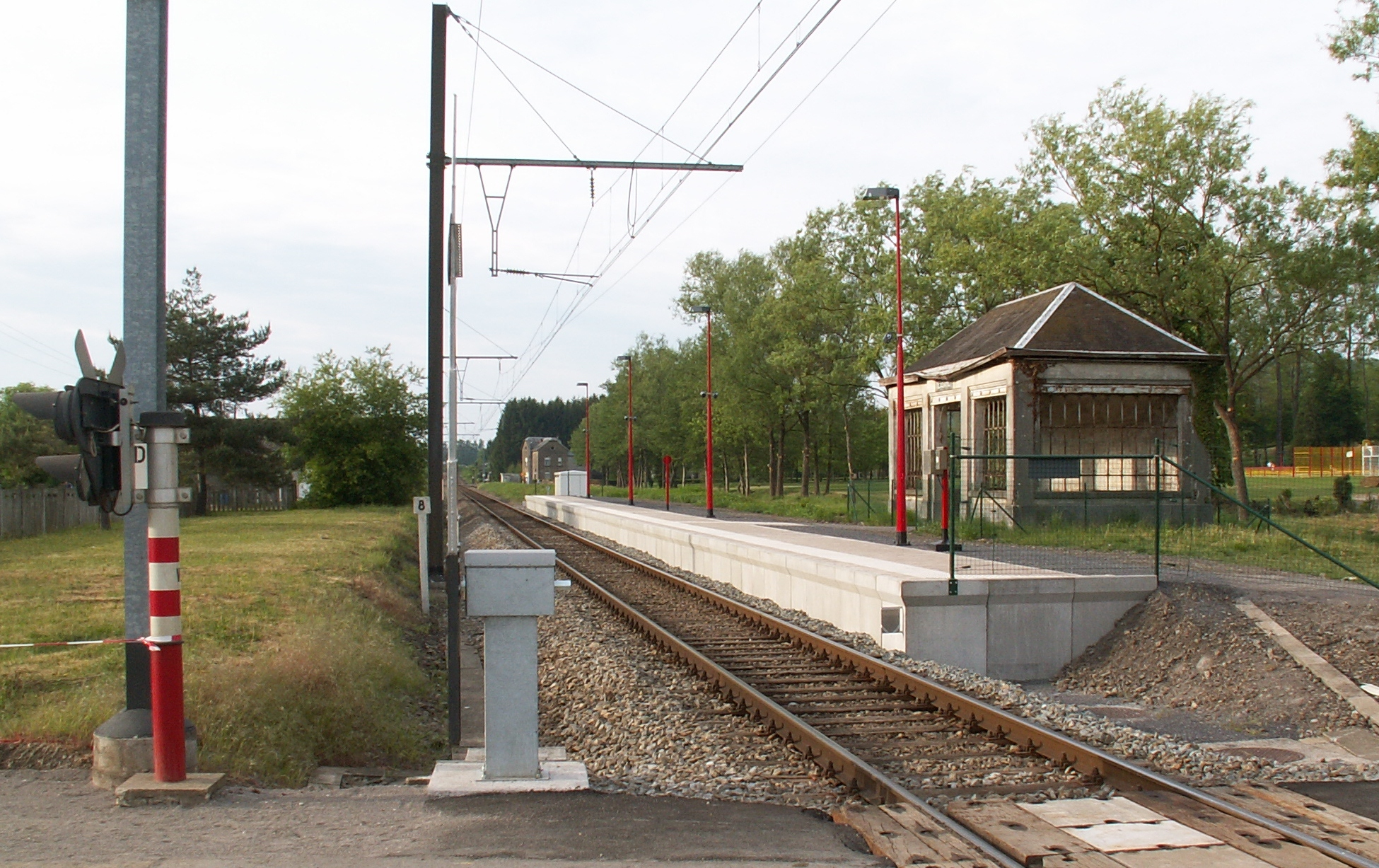 The station of Messancy, Belgium, on railway line 167 Arlon - Athus. This station has been closed in 1998 and reopened in june 2007 as a simple stop on the new Arlon - Rodange - Virton service on working days only.